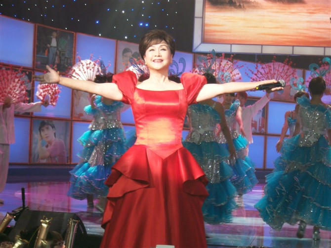 Li Guyi,born in changsha, hunan, the famous singer and artists.This photo use BenQ DC E1240 shooting.